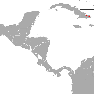 Cuban Solenodon (Solenodon cubanus) range